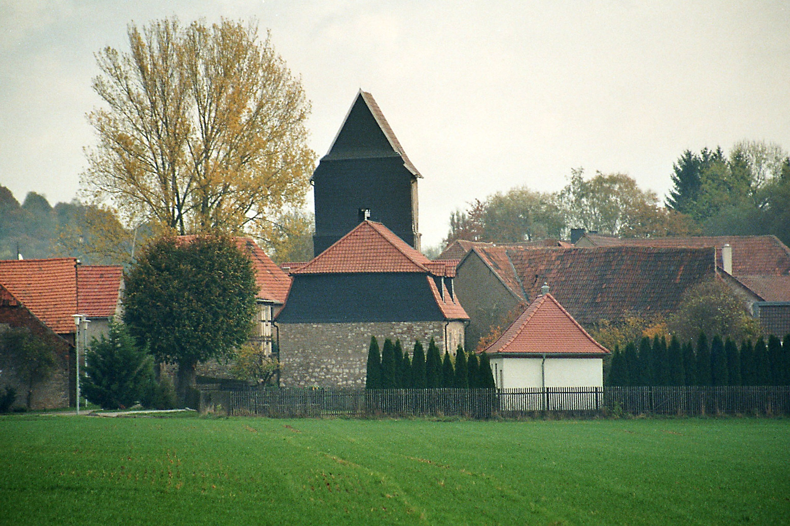 Drebsdorf (Südharz), rectory and tower of the church This is a photograph of an architectural monument. 81679